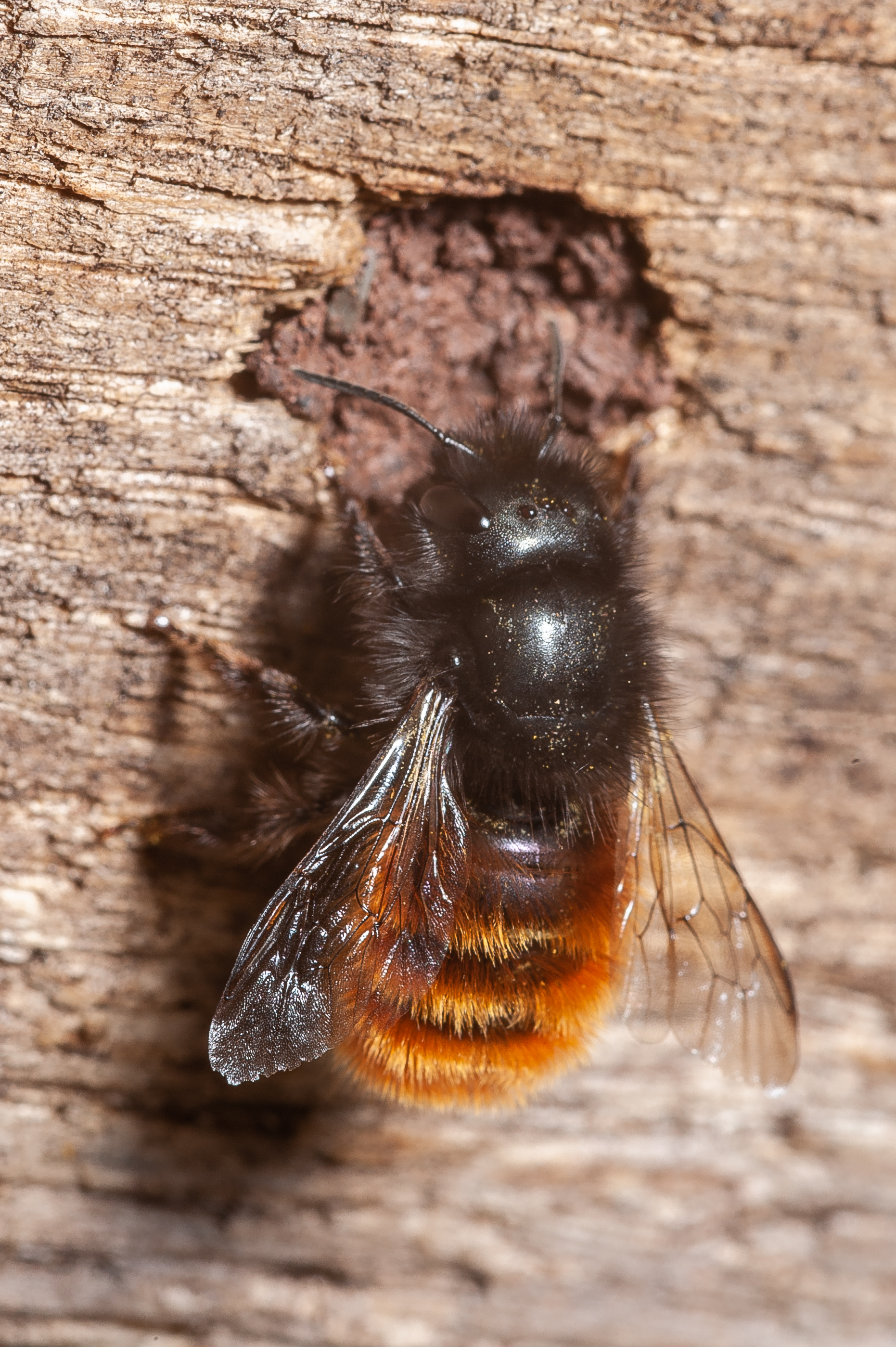 Osmia cornuta, f, before an almost finished breeding tube. Image taken in Stuttgart, Germany